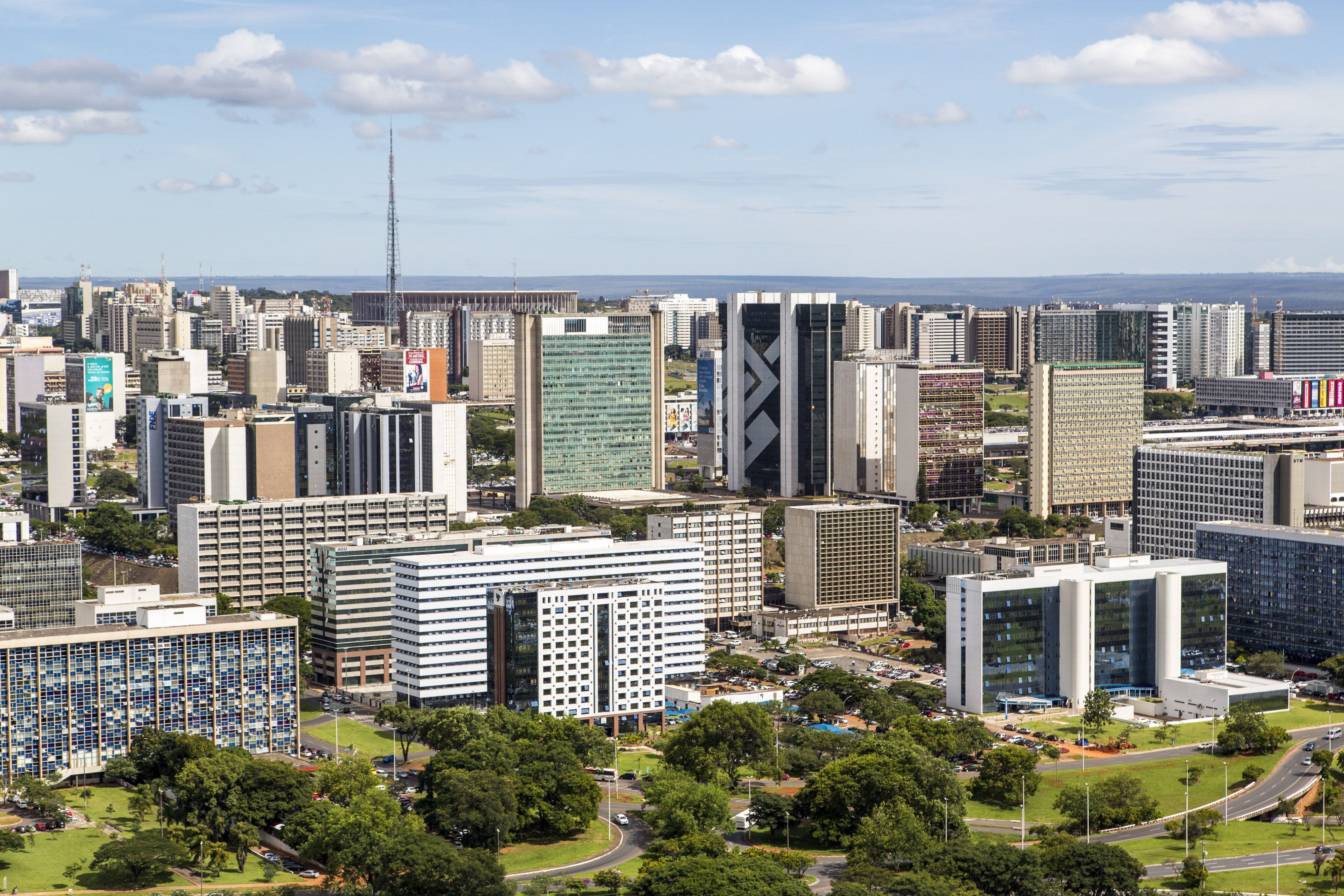 Setor Bancário Sul, Brasília, Brasil